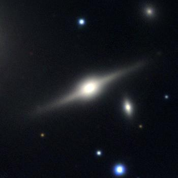 PanSTARRS image of NGC 705.